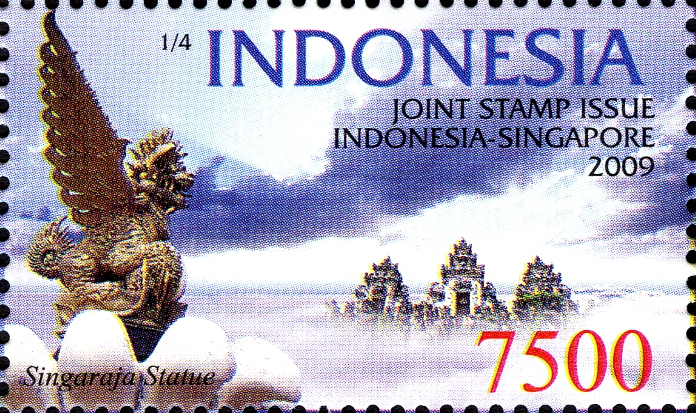 Stamps of Indonesia